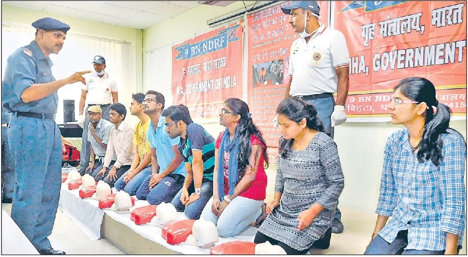 NDRF Training at IIT patna, Demonstration of CPR technique.